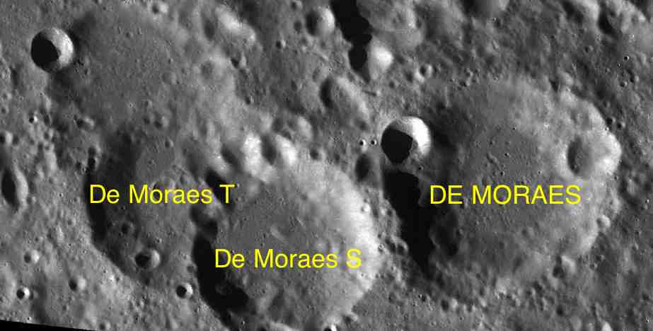 Part of the chart LAC-17 used for the presentation